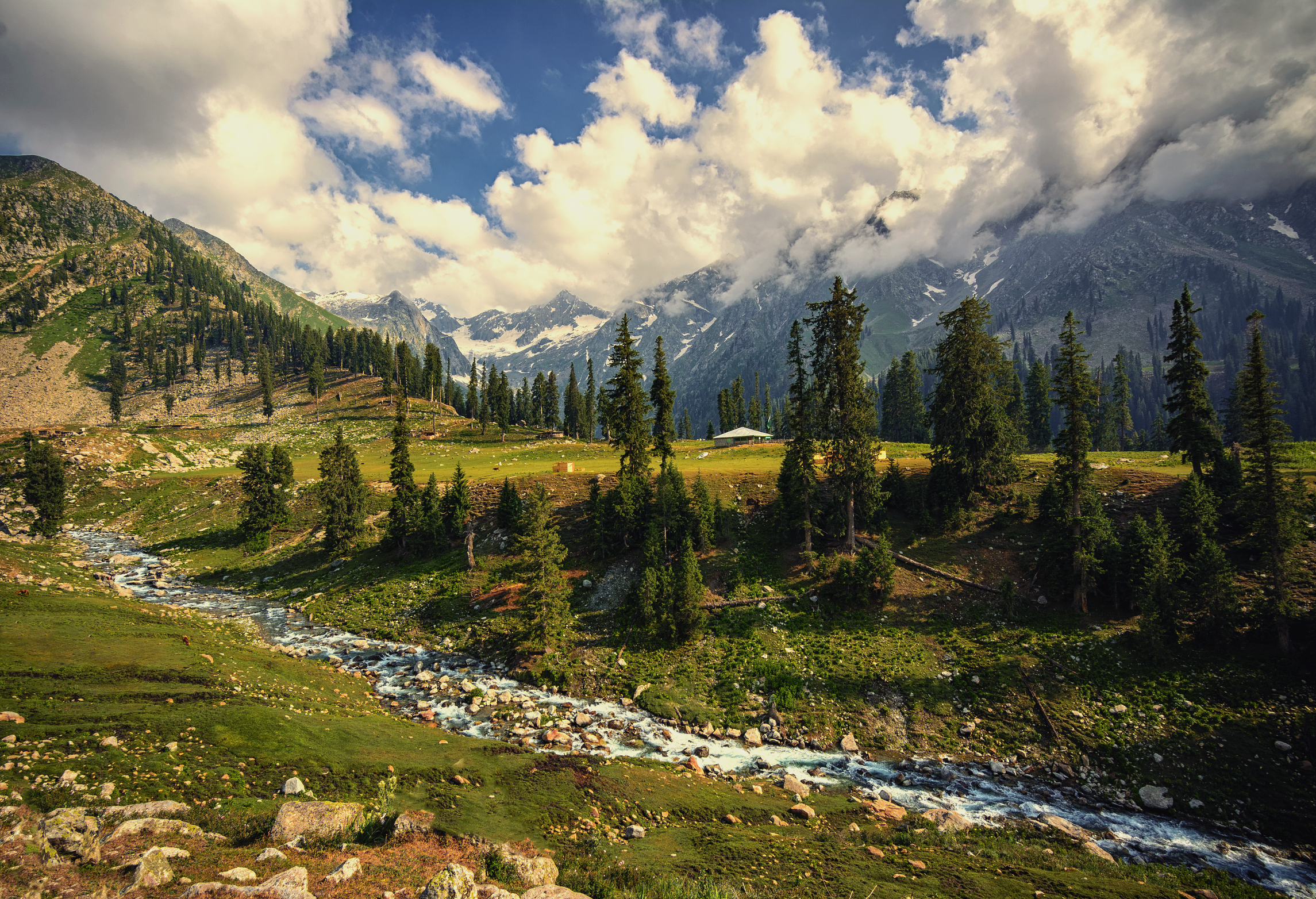 jahaz banda meadow taken before crossing the stream to the rest house which u can see a hut on the other side.upper dir kohistan pakistan.